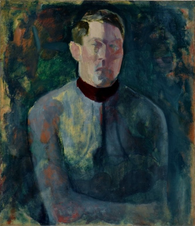 Self-Portrait by Rex Slinkard, 30 x 26 in. (76.2 x 66 cm.), oil on canvas, Cantor Art Center